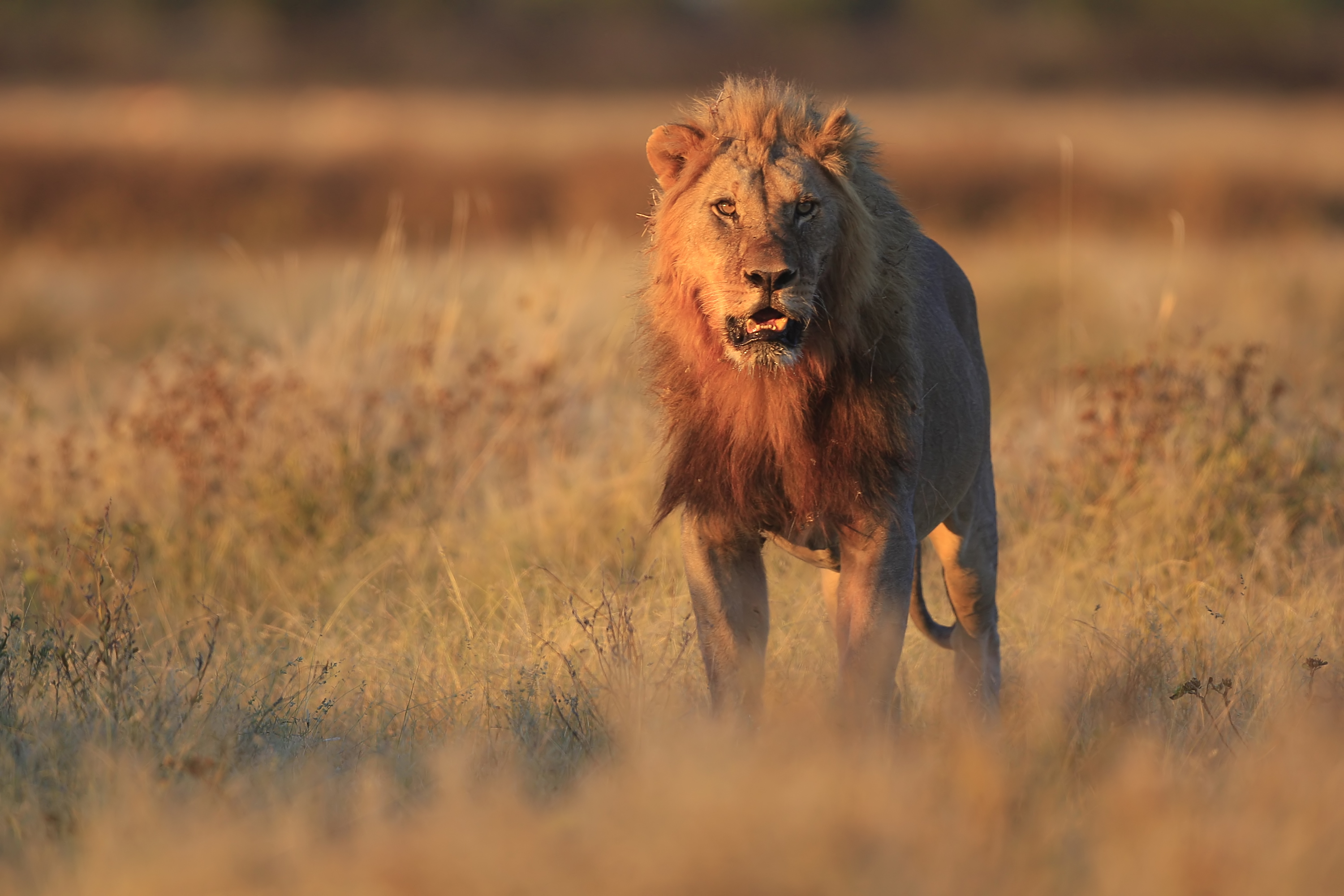 Lion at Gemsbokvlakte